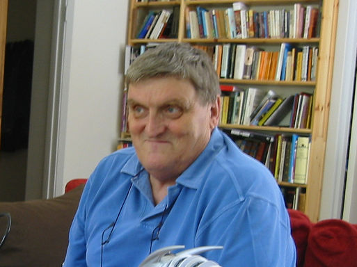 Philip Newth, detail of "Roboraptor, robosapien and dad", 15 august 2005, by Eirik Newth.